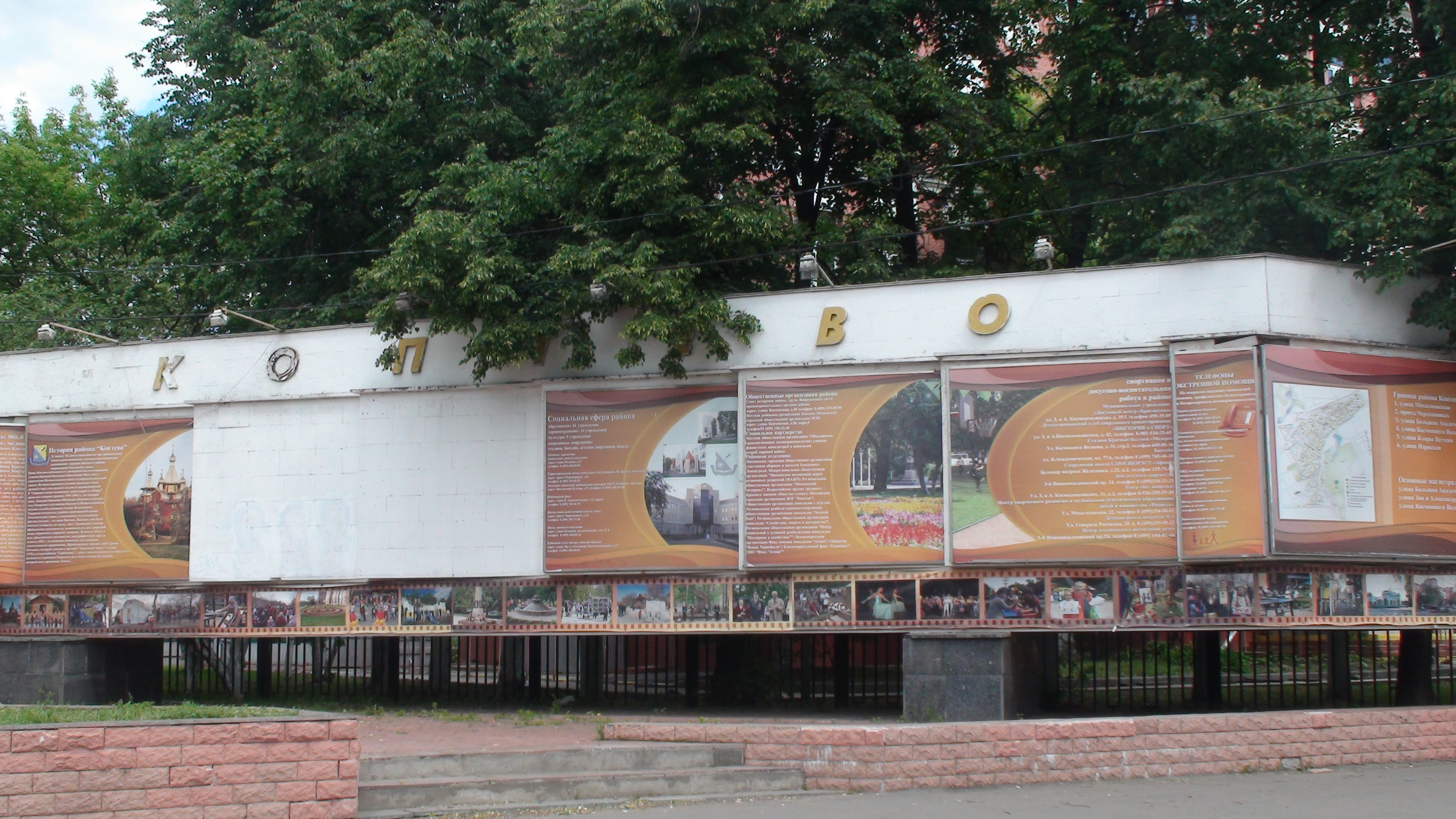 Москва район Коптево